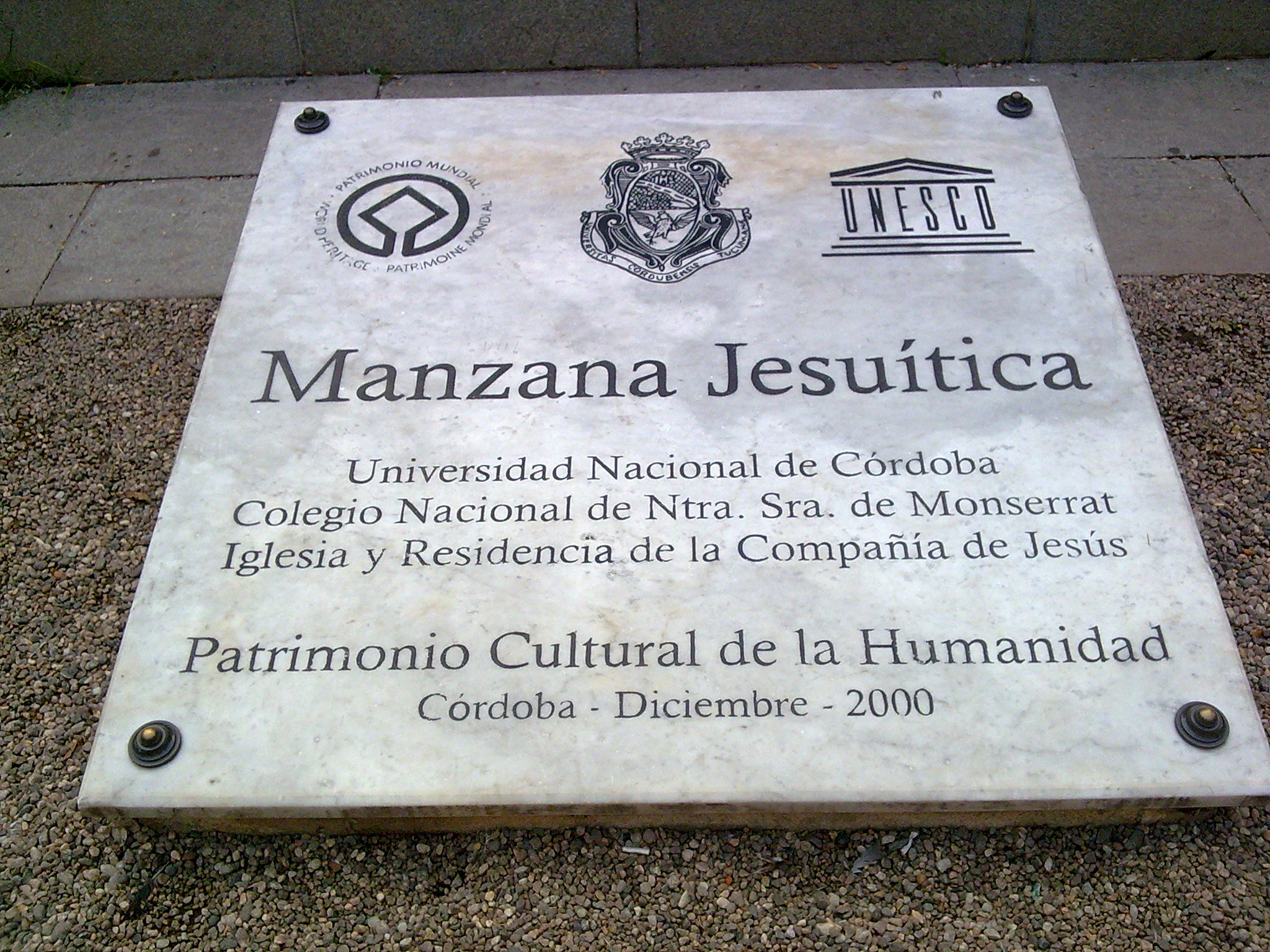 Plaque commemorating the declaration of the Jesuit block as a World Heritage in 2000. Located inside Jesuit block, Cordoba, Argentina.